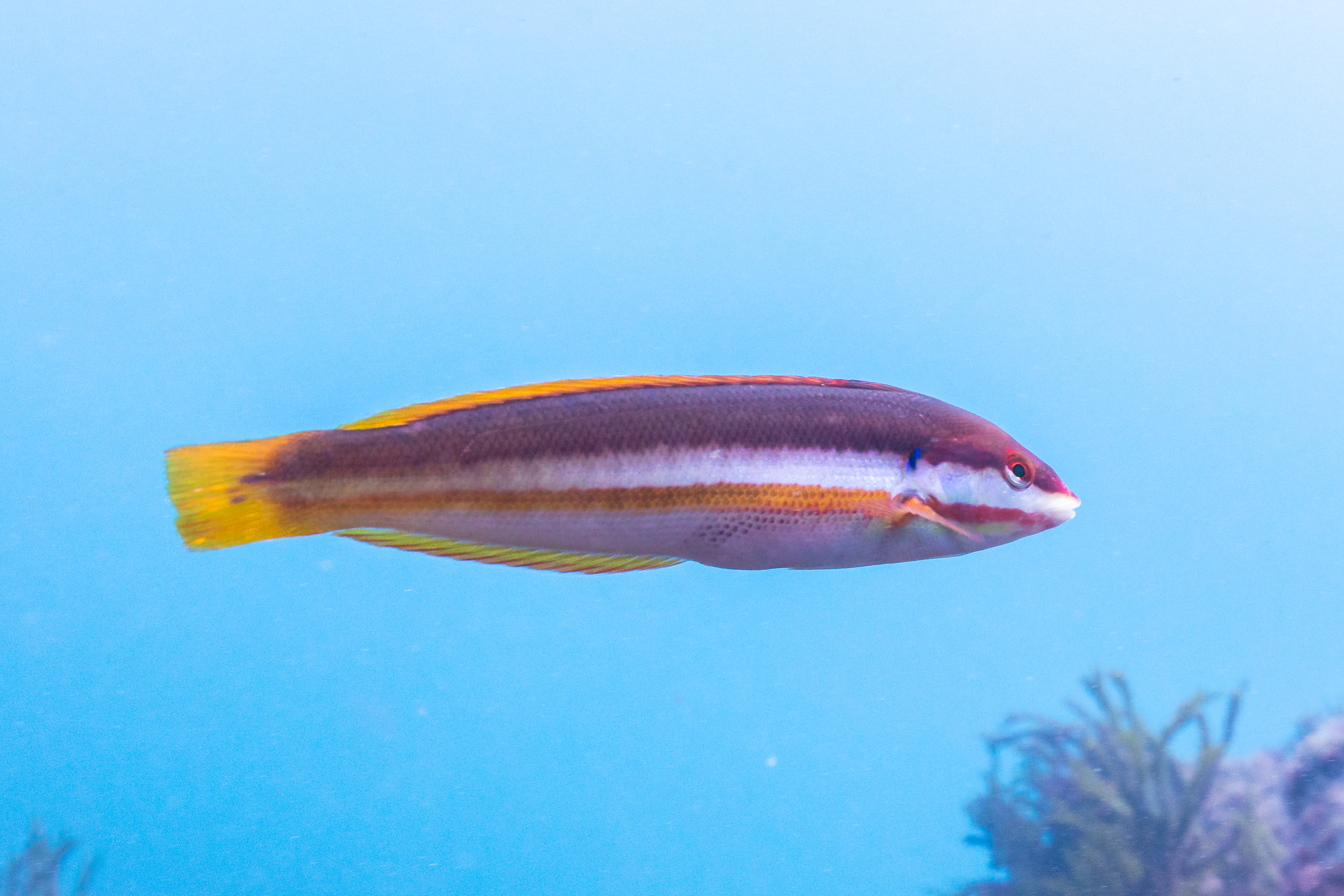 Mediterranean rainbow wrasse (Coris julis), Mouro Island, Santander, Spain